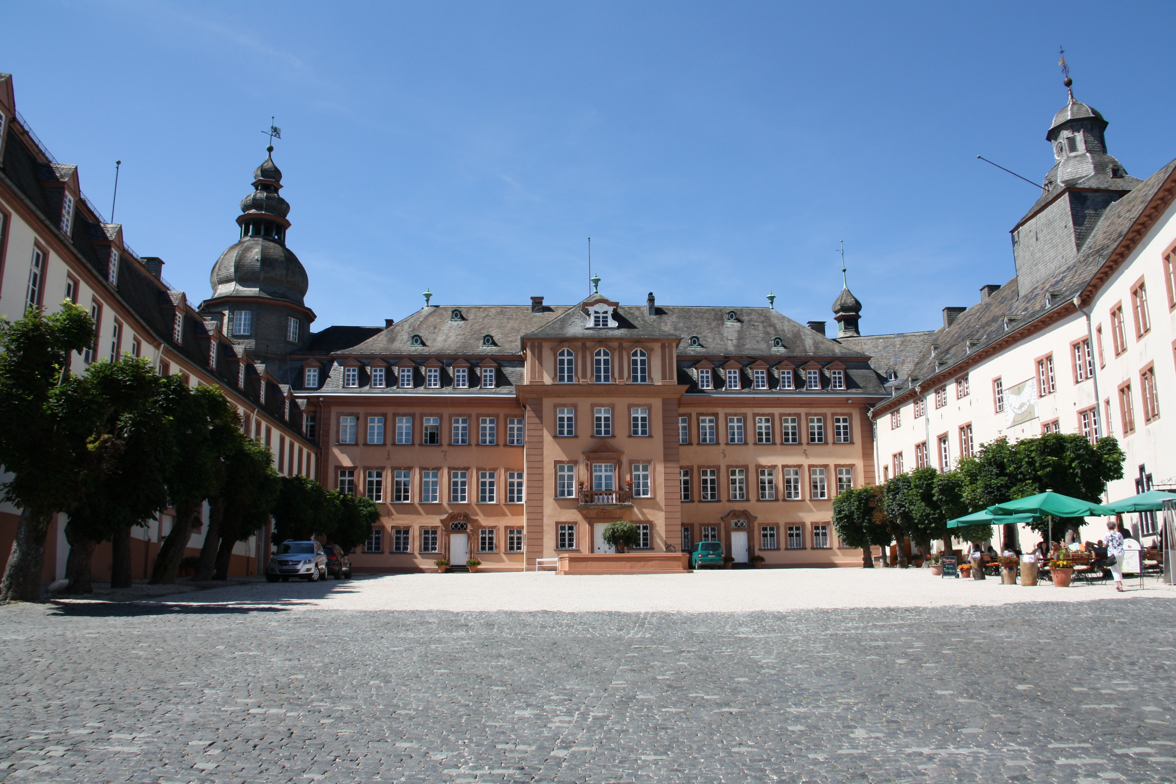 Cultural Heritage Monument in Bad Berleburg, Castle